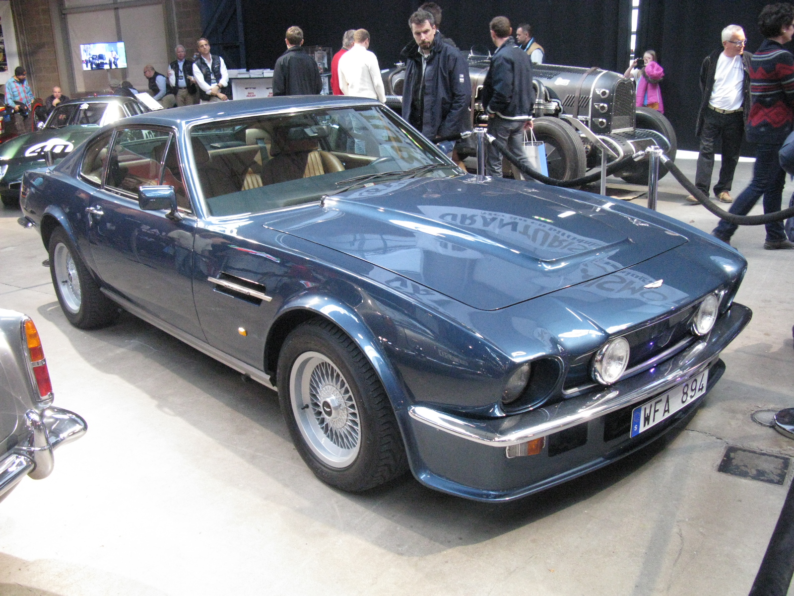 Aston Martin V8 Vantage